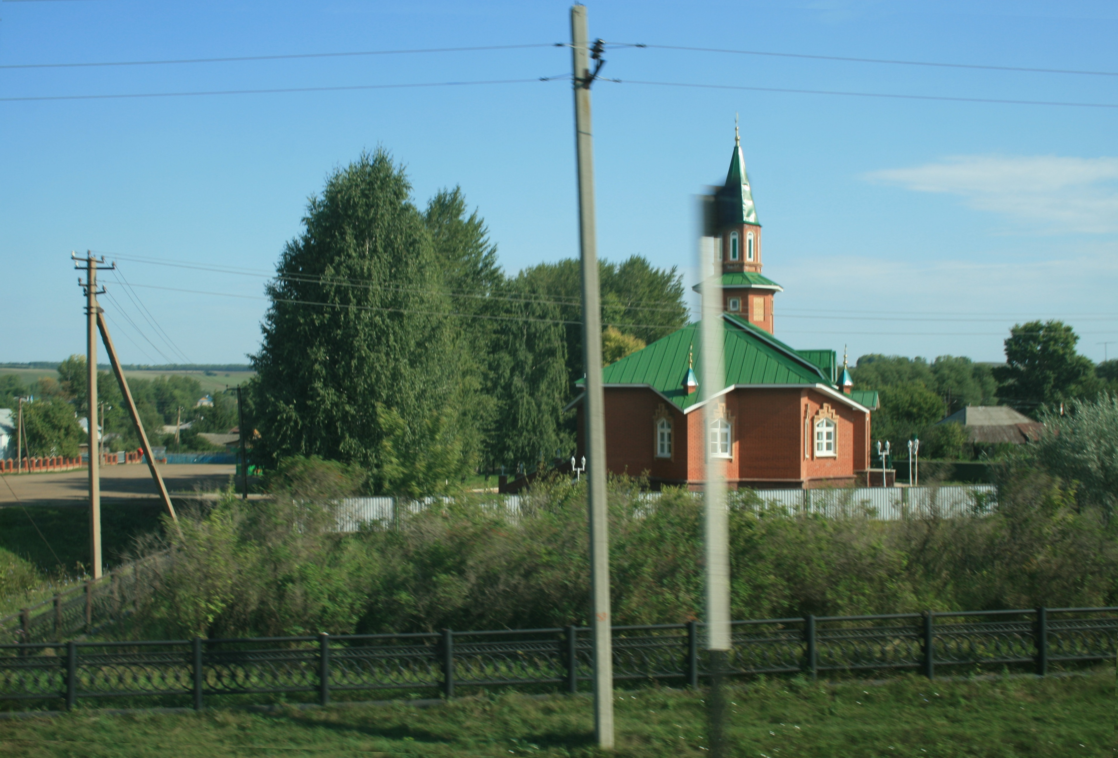 Mosque of Starokalmashevo